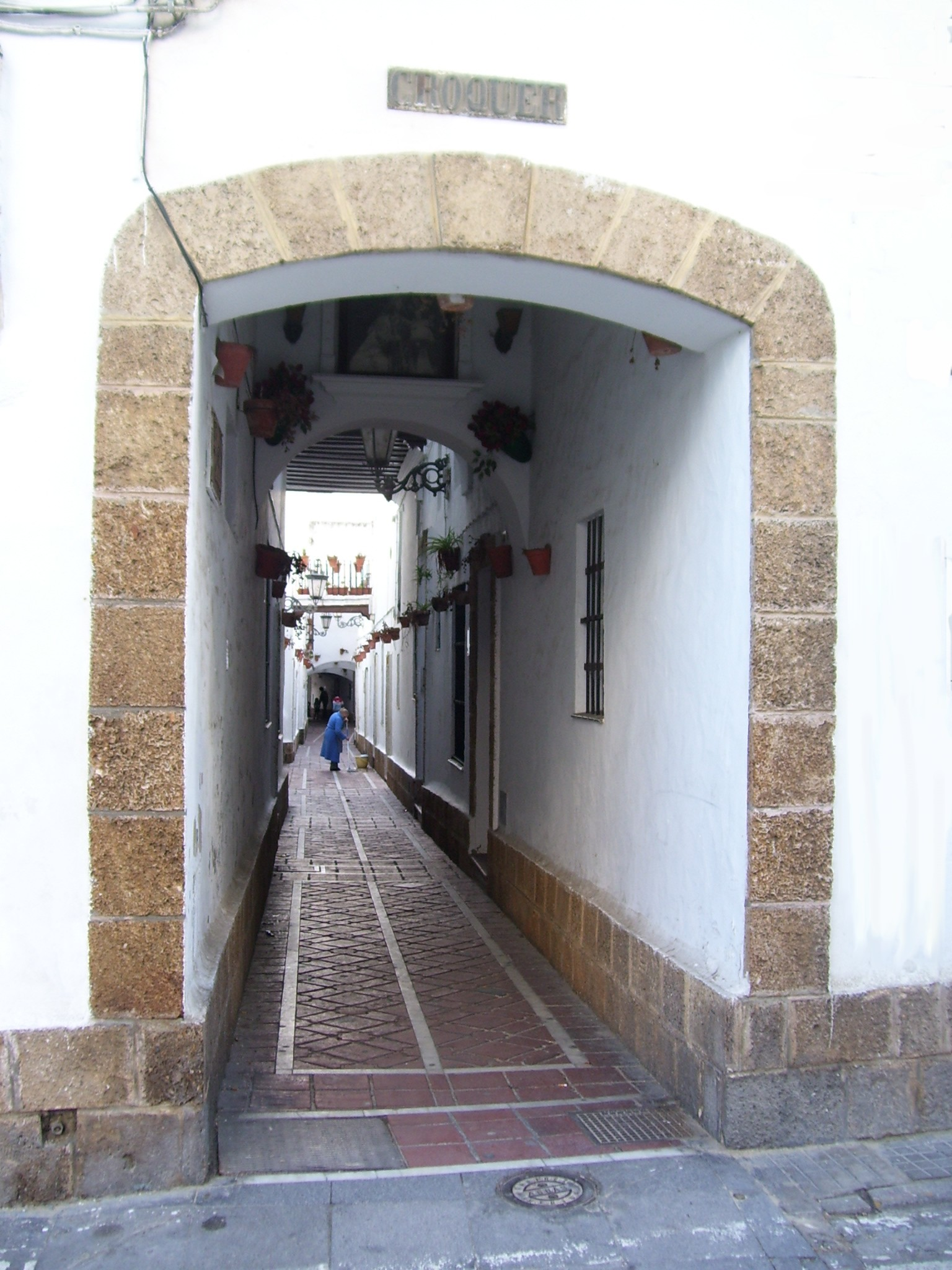 Entry way to Crocquer alley, in San Fernando (Cádiz, España).